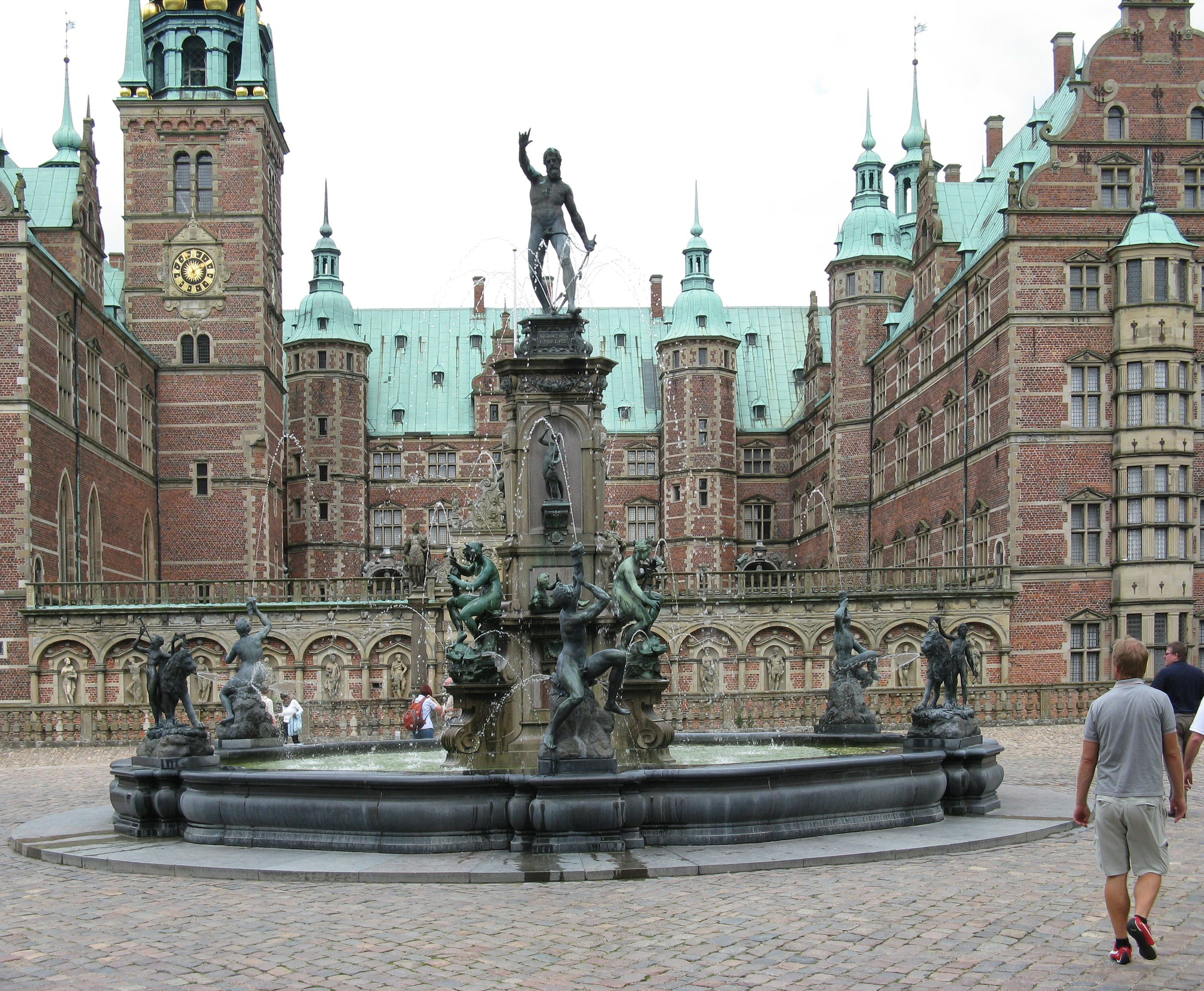 Neptune´s fountain by Adriaen de Vries at Frederiksborg slot.